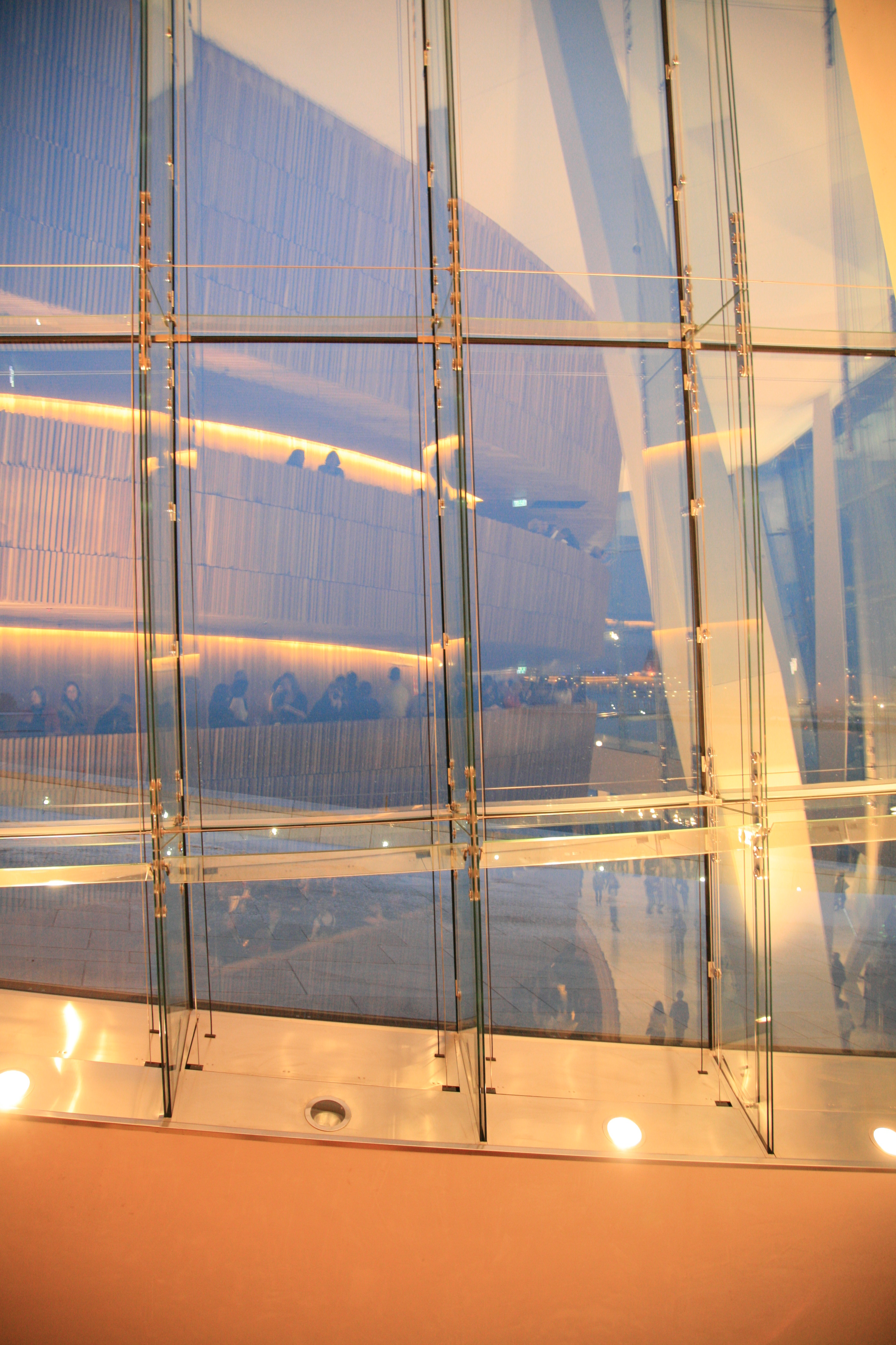 Interior of Oslo Opera house